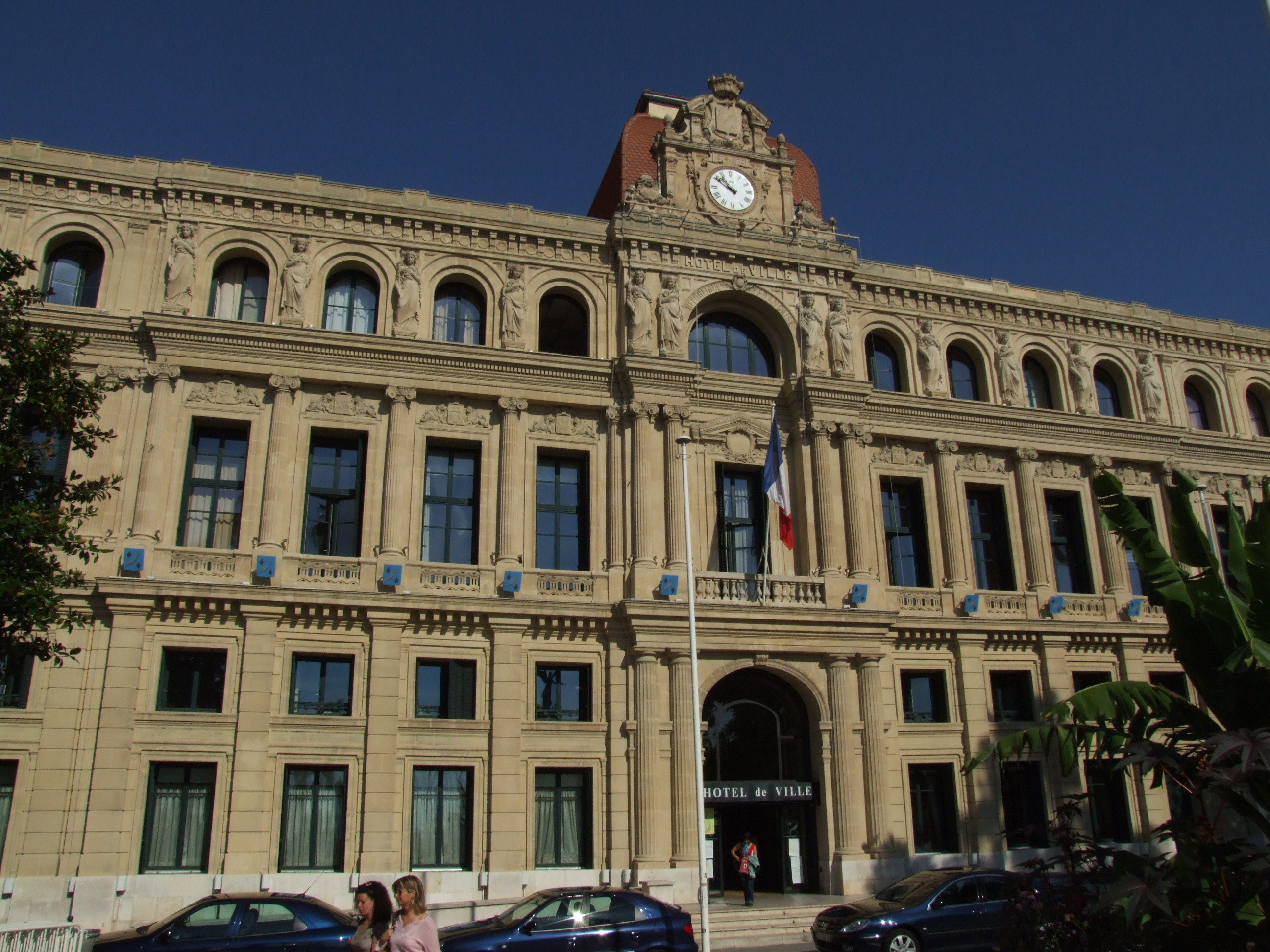 Town Hall, Cannes, FRANCE